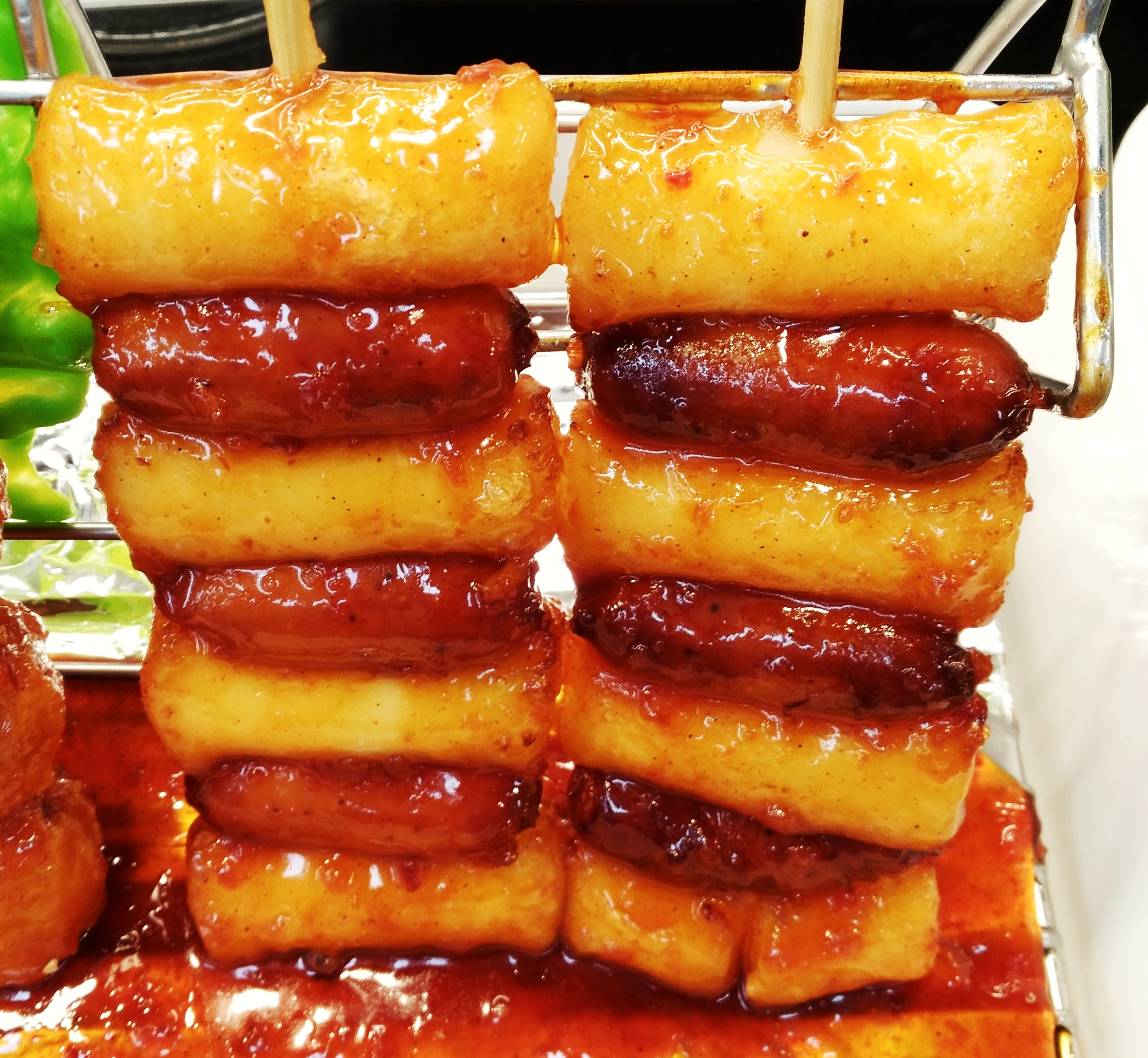 Sotteok-sotteok (skewered sausages and rice cakes)